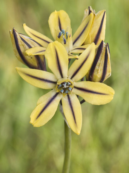 Triteleia ixioides unifolia, Table Mountain, Butte Co., CA